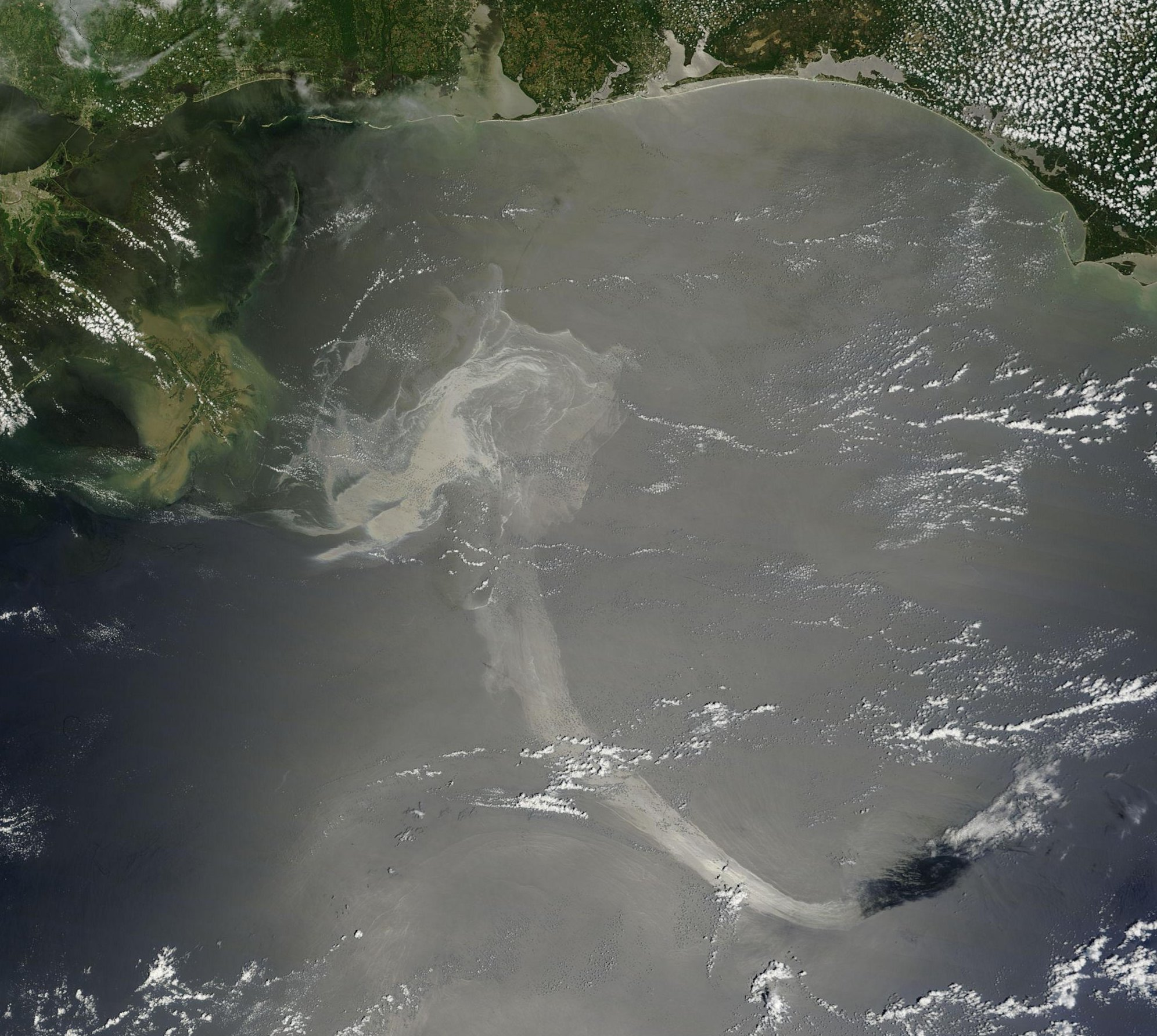 Deepwater Horizon oil spill imagined in true color on May 17 by the MODIS instrument aboard NASA's TERRA satellite.